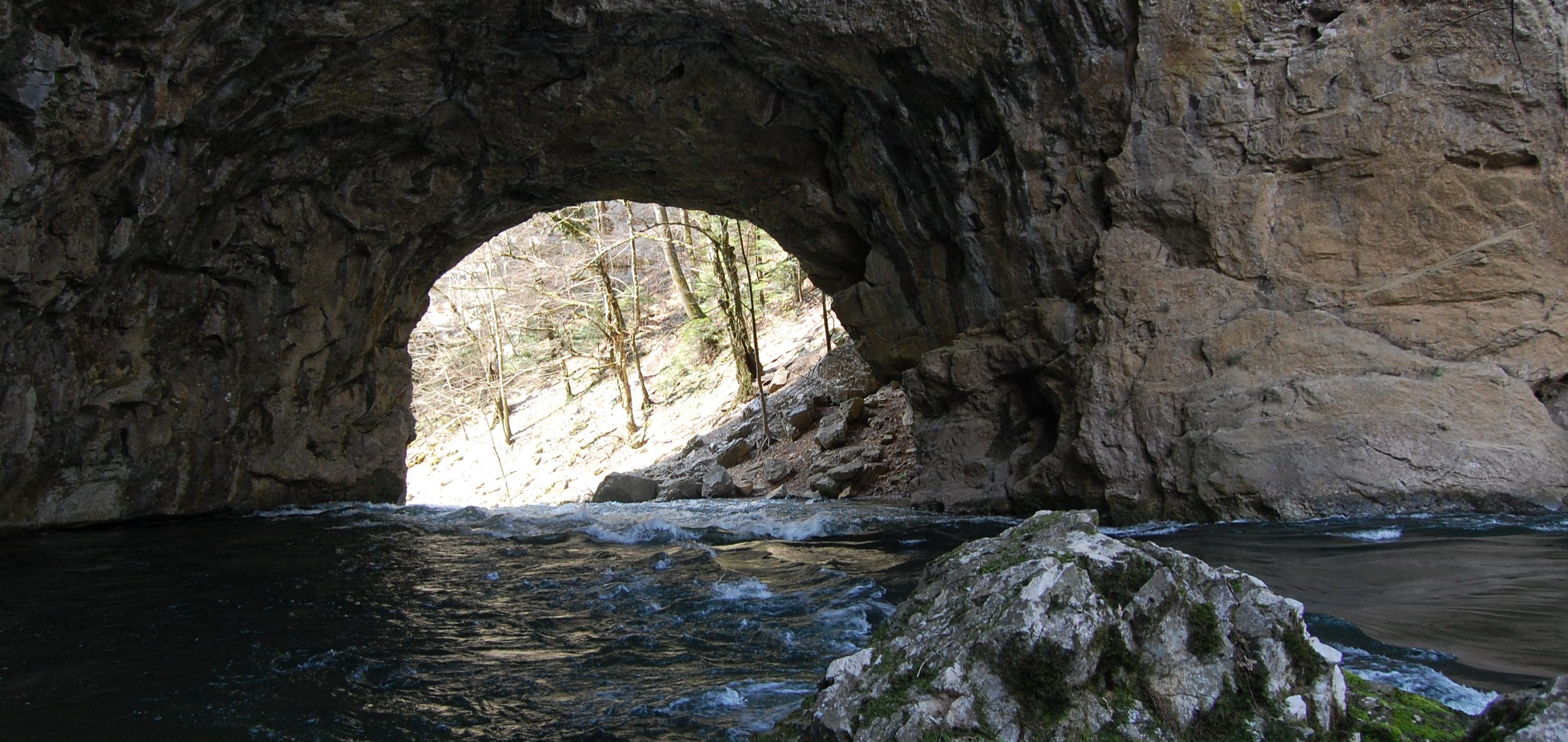 River Rak under Big natute bridge in Rakov Škocjan Regional Park (Slovenia, 2008)